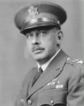 Major General Julius Ochs Adler (1892 - 1955). Also publisher and journalist.